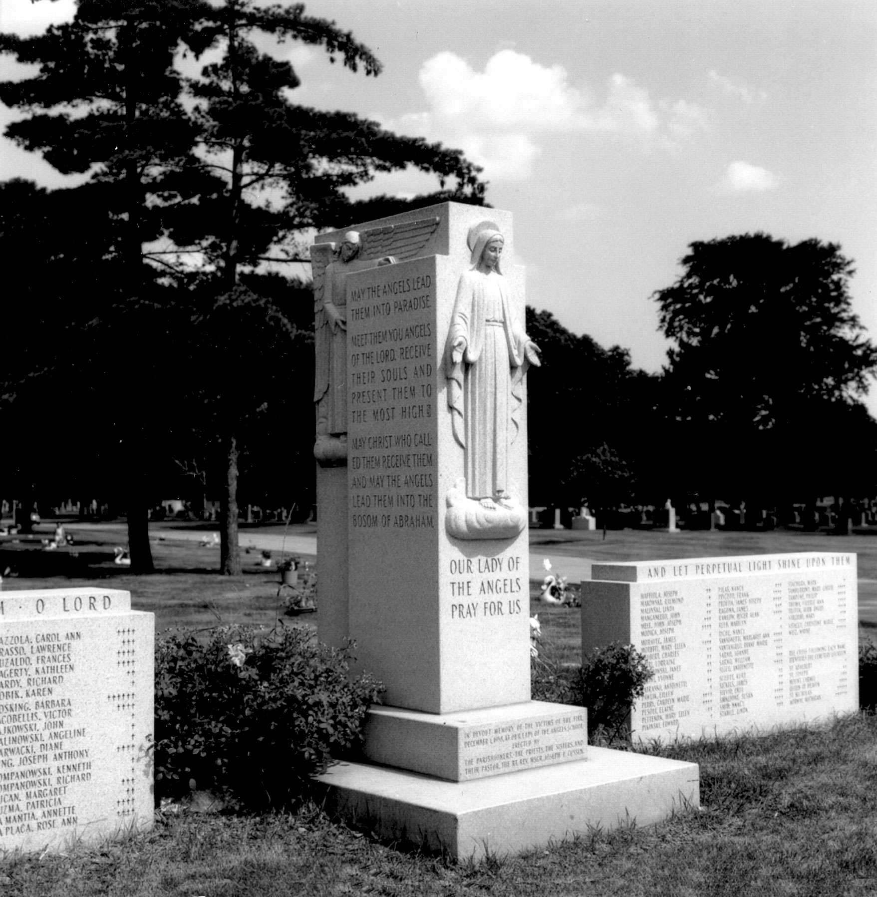 Photo by Einar Einarsson Kvaran for Our Lady of the Angels School Fire, sculpture by Corrado Parducci